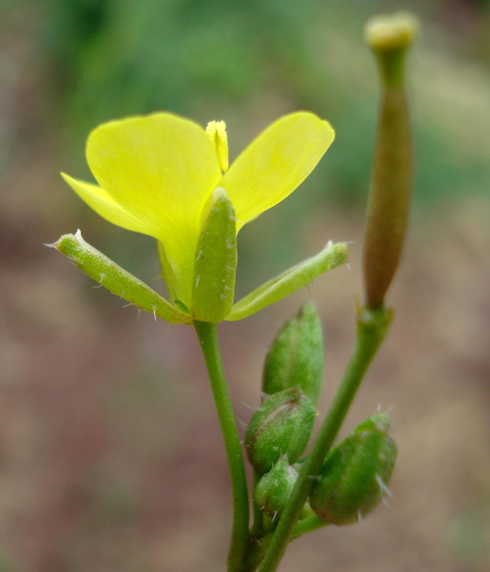 Diplotaxis muralis (Unterfranken, Germany)